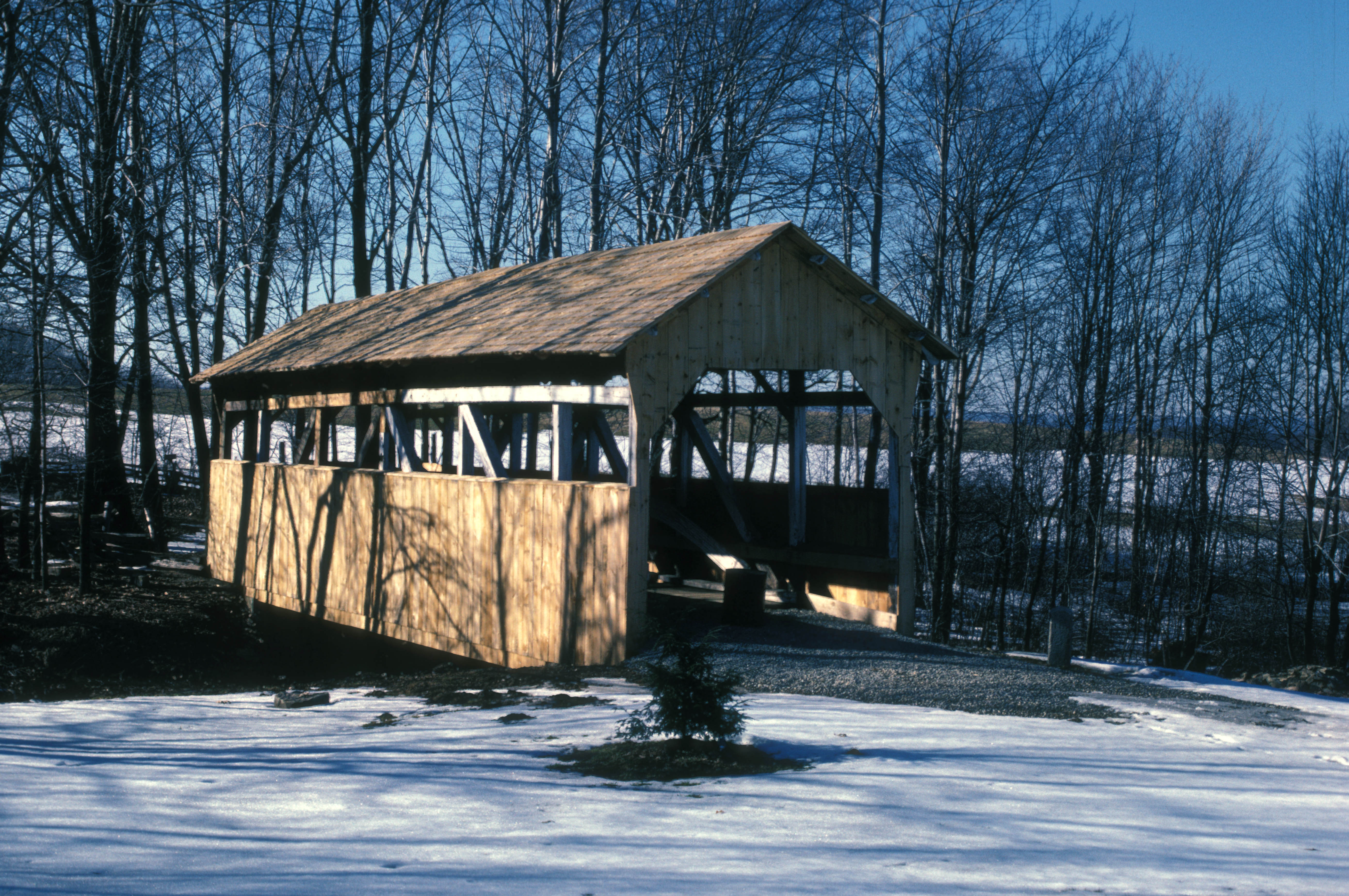 COX’S CREEK/ROBERTS/WALTER’S MILL COVERED BRIDGE IN SOMERSET COUNTY MUSEUM OVER A BROOK; 1830, 62’ BURR